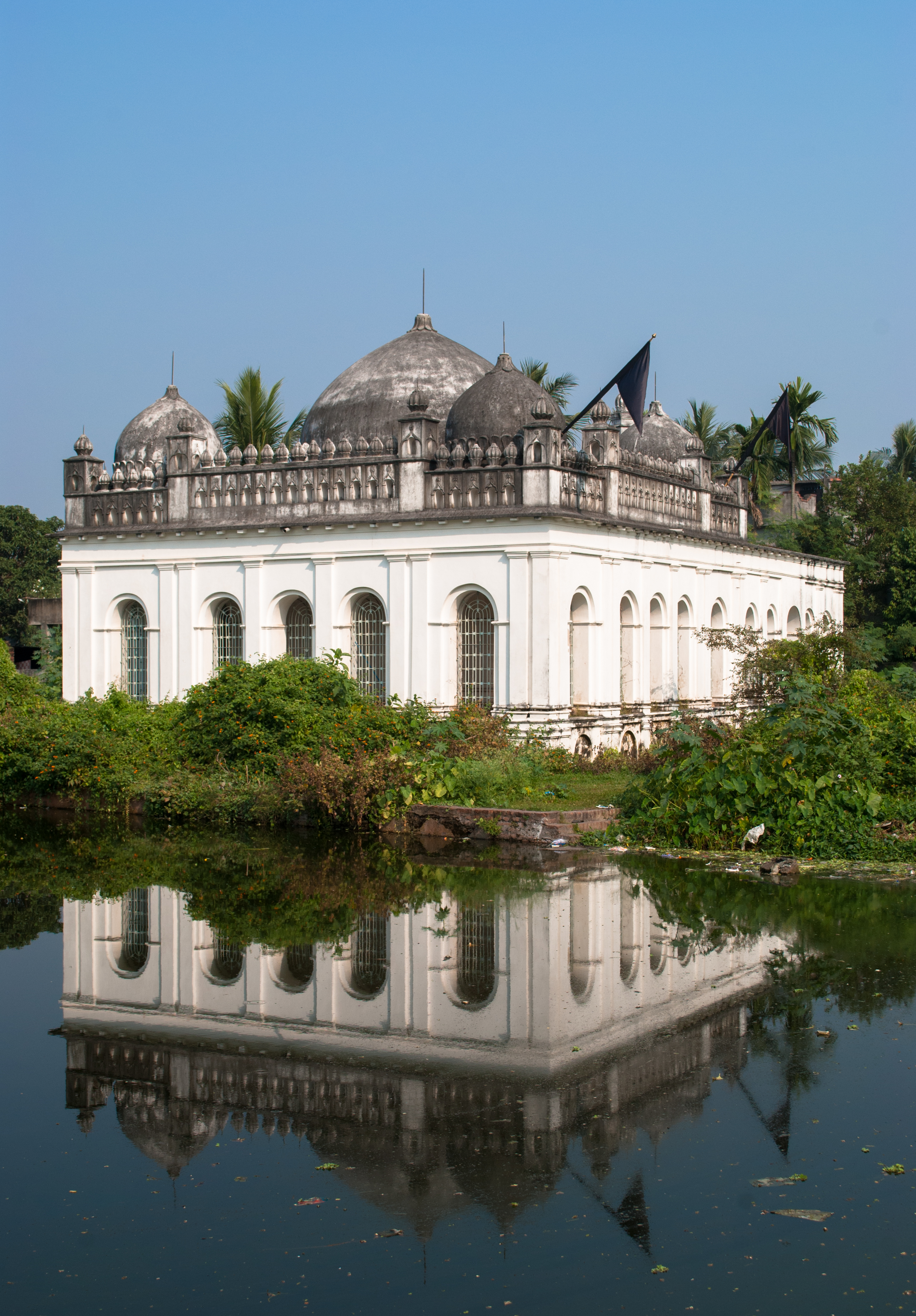 This photograph is taken in a mosque in Chinsura